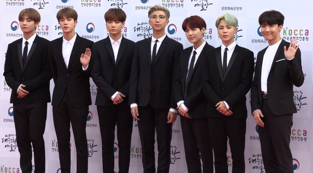 BTS on the red carpet of Korean Popular Culture & Arts Awards on October 24, 2018.